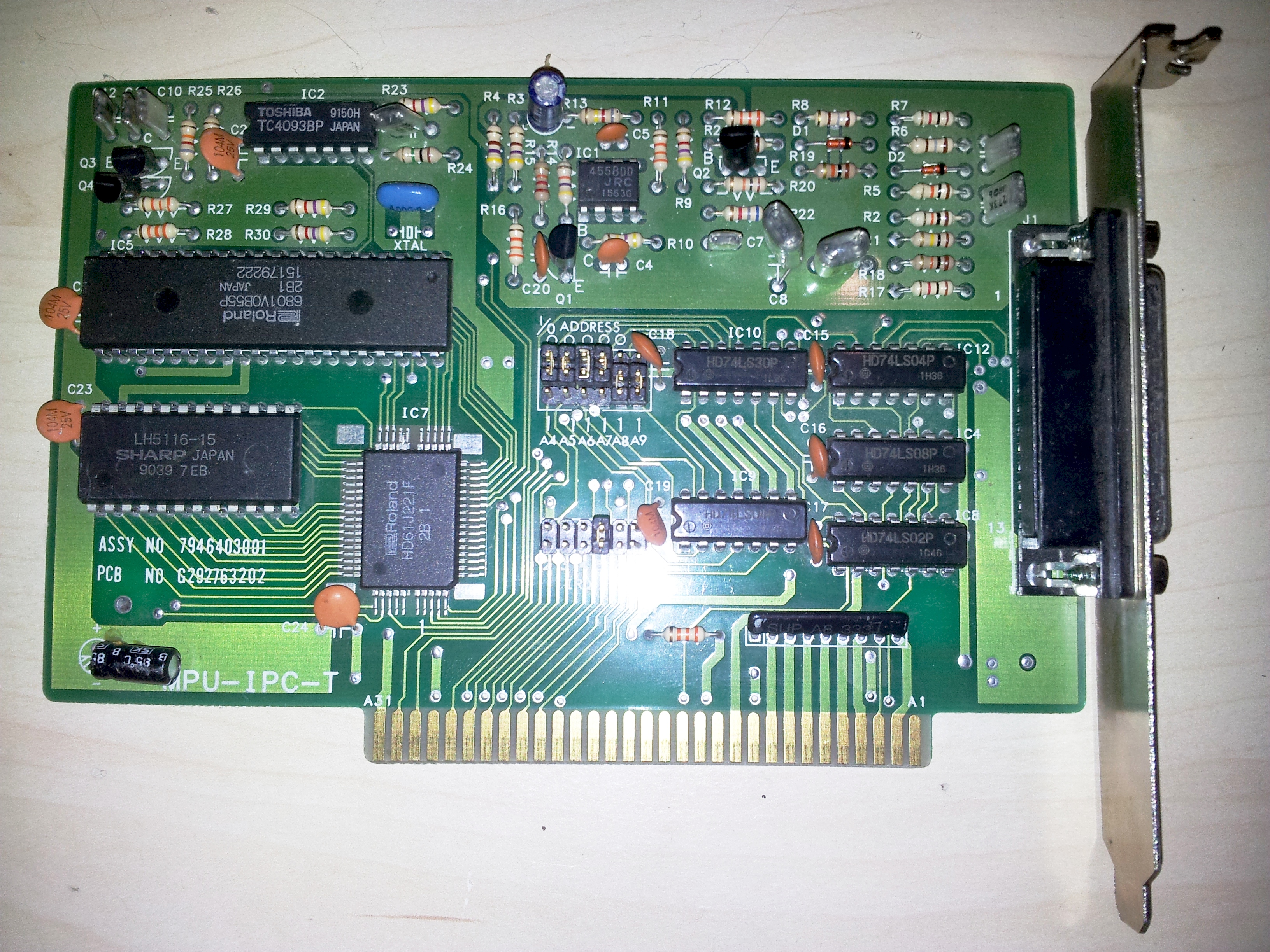 roland midi interface. half size isa card